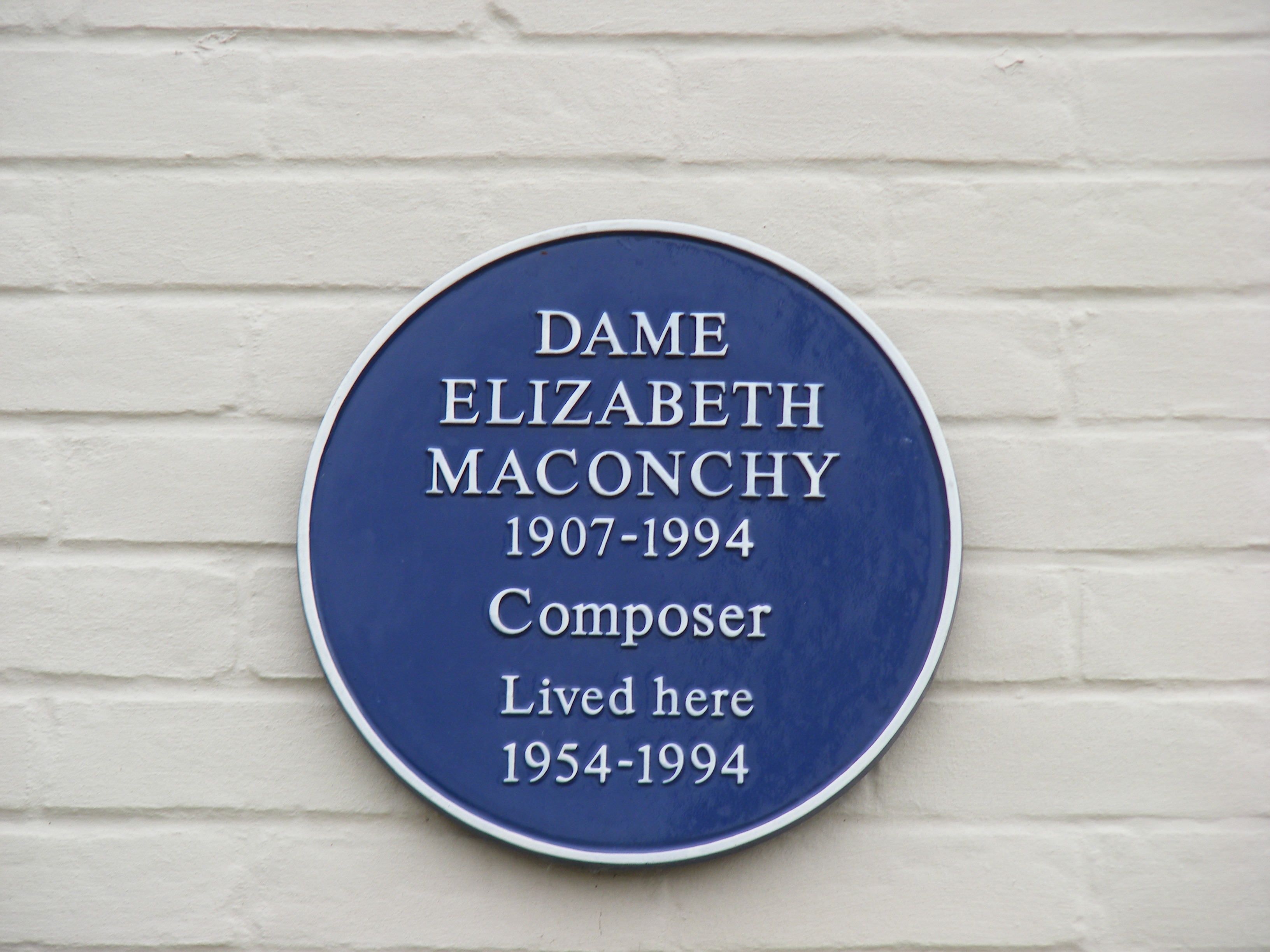 Shottesbrook, Boreham Blue plaque to the composer Dame Elizabeth Maconchy, 1907 - 1994 who lived here for the last 40 years of her life. Her husband William R LeFanu was librarian at the Royal College of Surgeons in London.